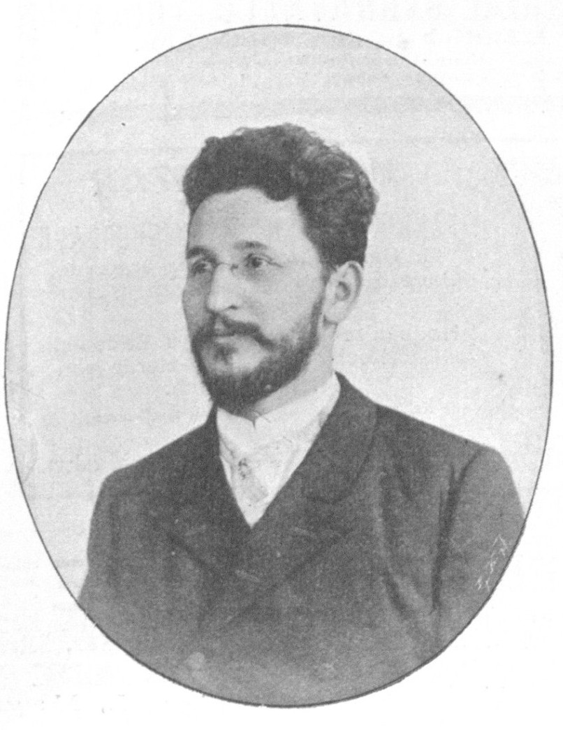 Portrait of Anton Drexler (1858-1940), Austrian architect.